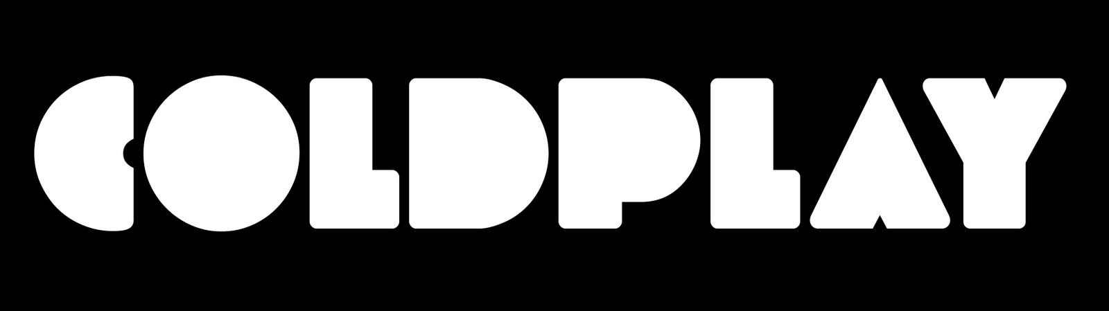 Mylo Xyloto era Coldplay logo with black background.